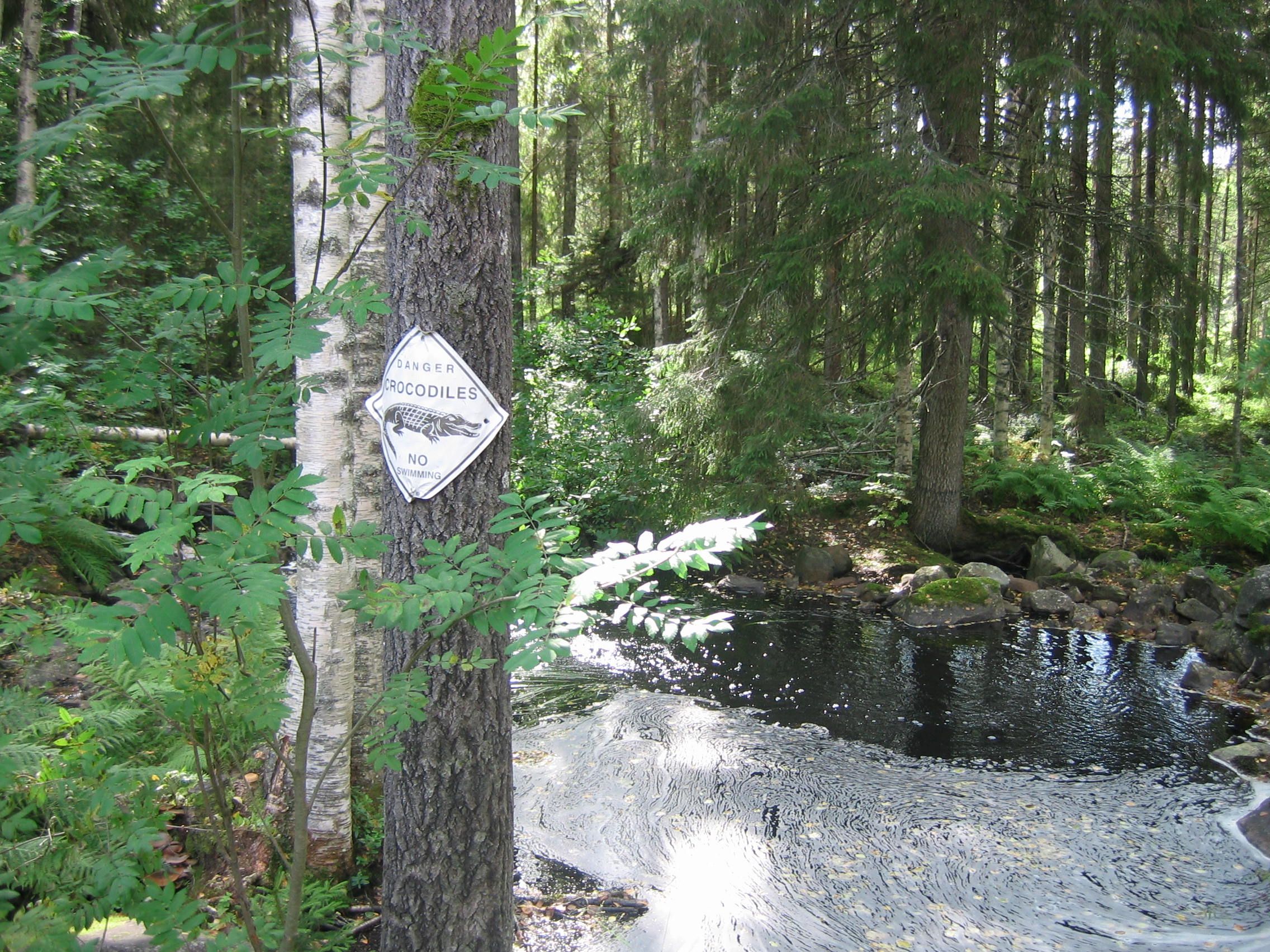 A swimming place of a fishing hut at Karvasoja creek in Utajärvi, Finland.